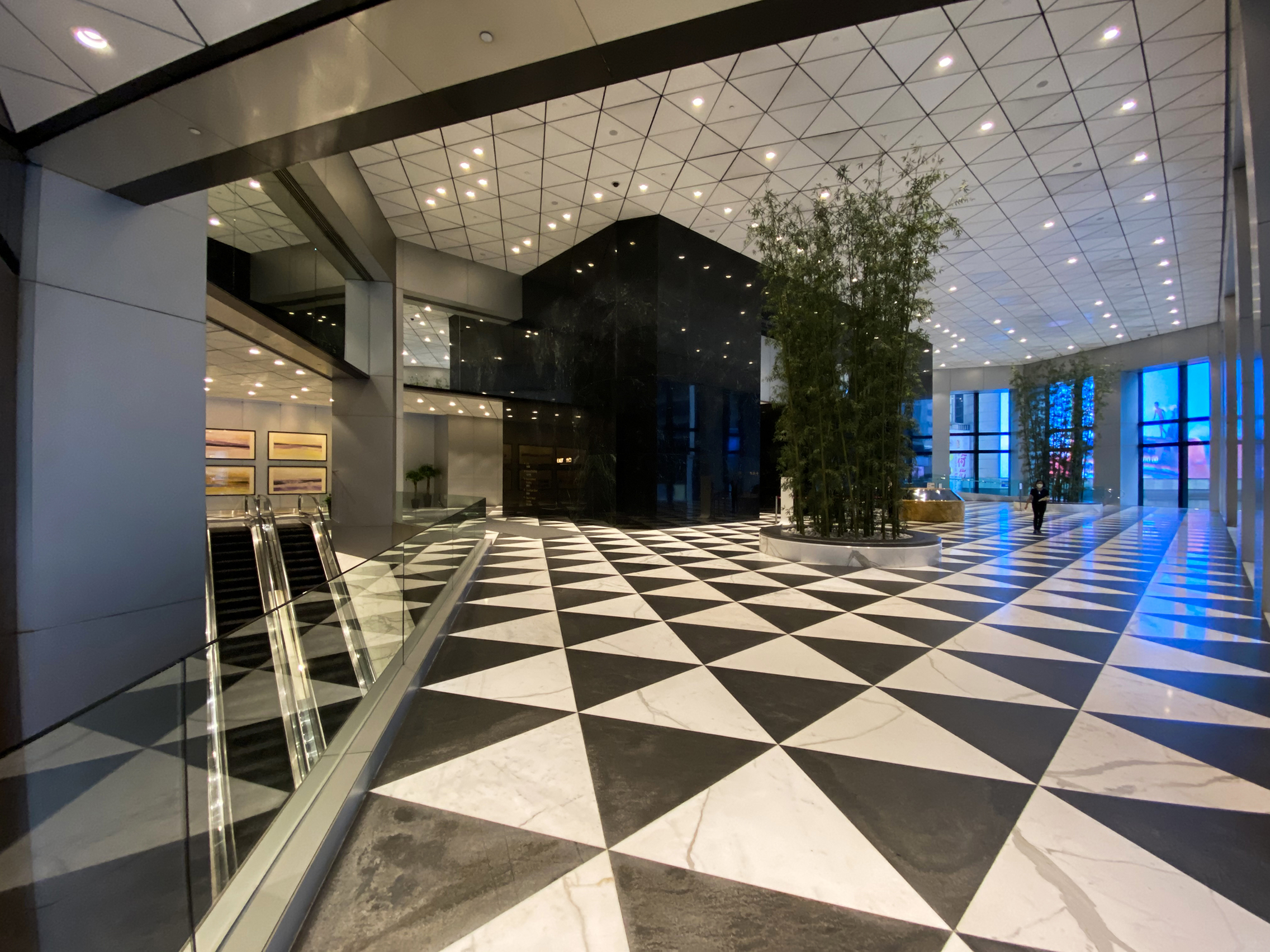 Central Tower Lobby